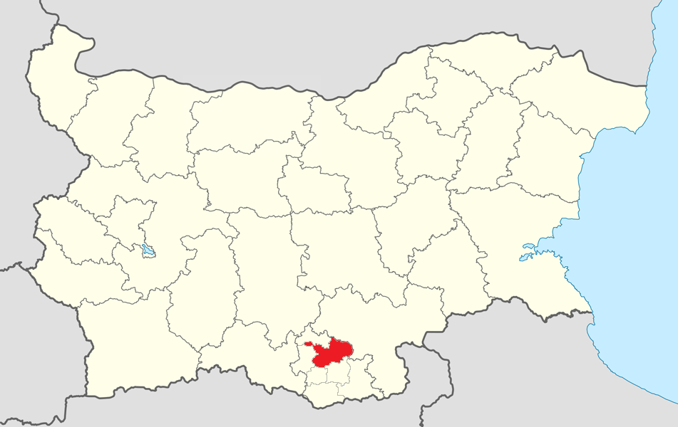 Location map of Kardzhali Municipality within Bulgaria and Kardzhali province